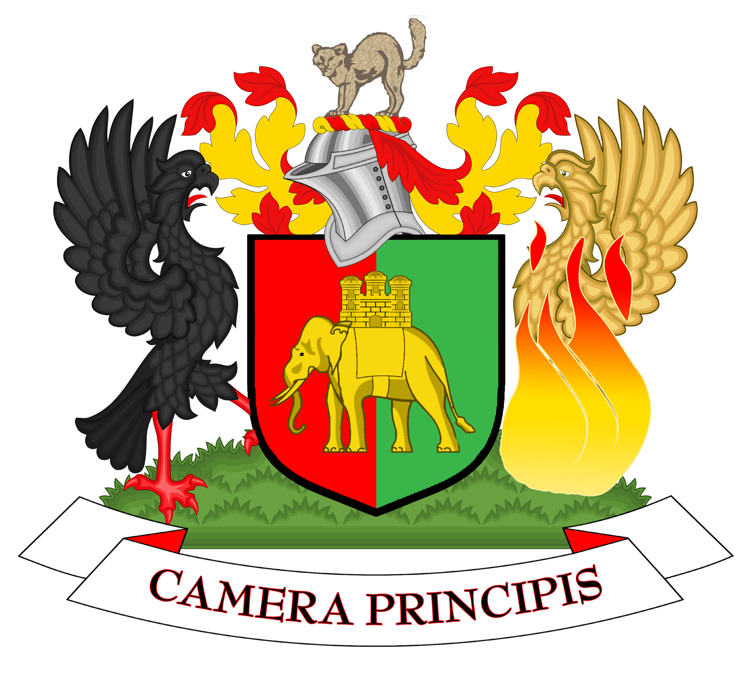 The Coat of arms of Coventry City Council, the local government authority for the City of Coventry, a metropolitan district of the West Midlands, England. The blazon is:ARMS: Per pale gules and vert, an elephant statant bearing on his back a Castle triple-towered and domed or.CREST: A cat statant guardant proper.SUPPORTERS: On the dexter side an Eagle, wings elevated and addorsed sable, langued and legged gules and on the sinister side a Phoenix, wings elevated and addorsed or langued gules, the Flames proper.